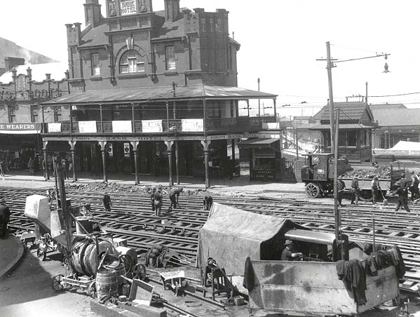 Redfern Railway Station. Relaying tram tracks in Newtown Dated: 1927 Digital ID: 17420_a014_a0140001117